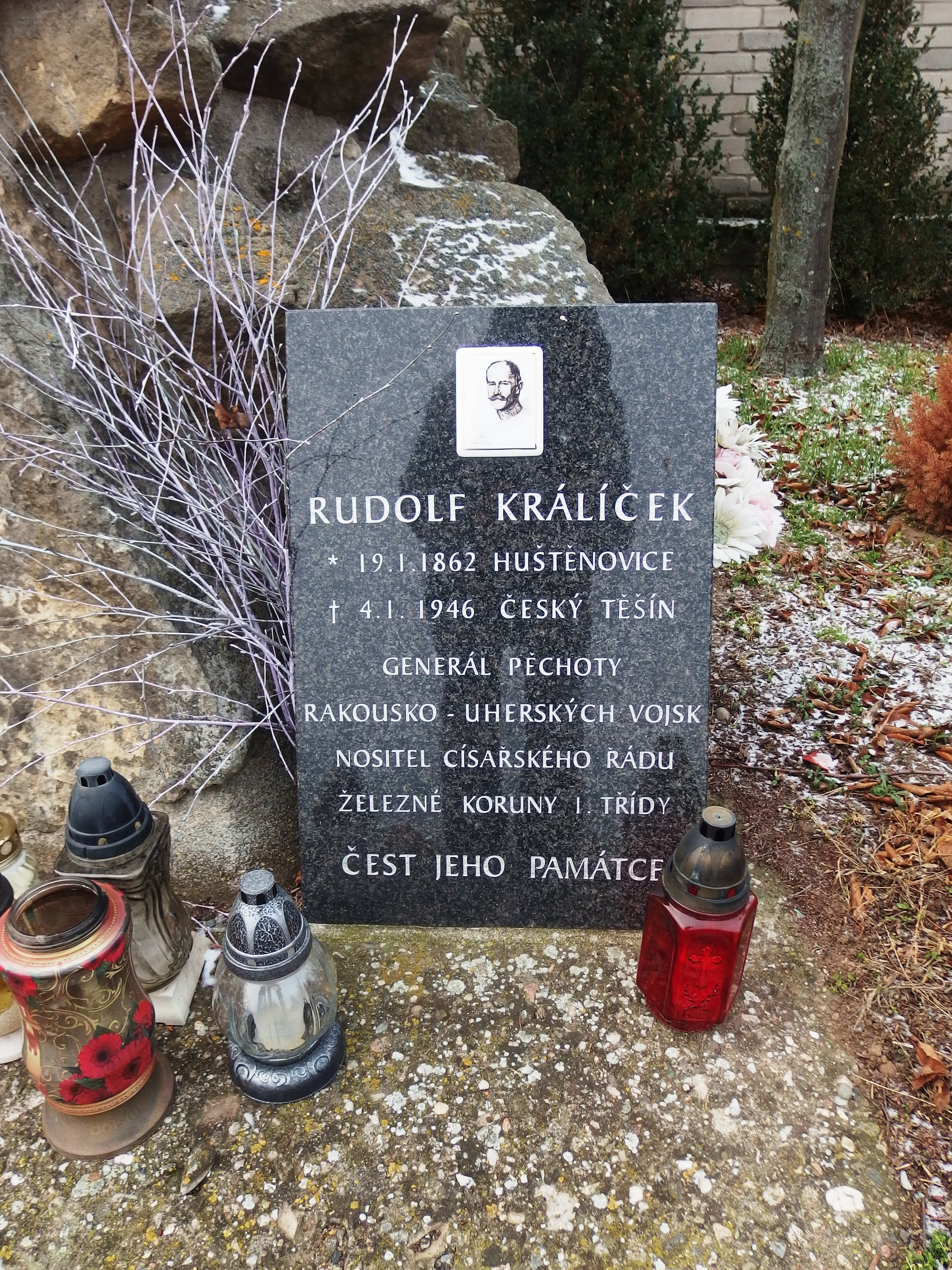 Huštěnovice in Uherské Hradiště District, Czech Republic. Cemetery.